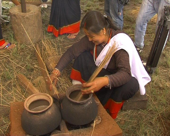 It is an earthen pot.